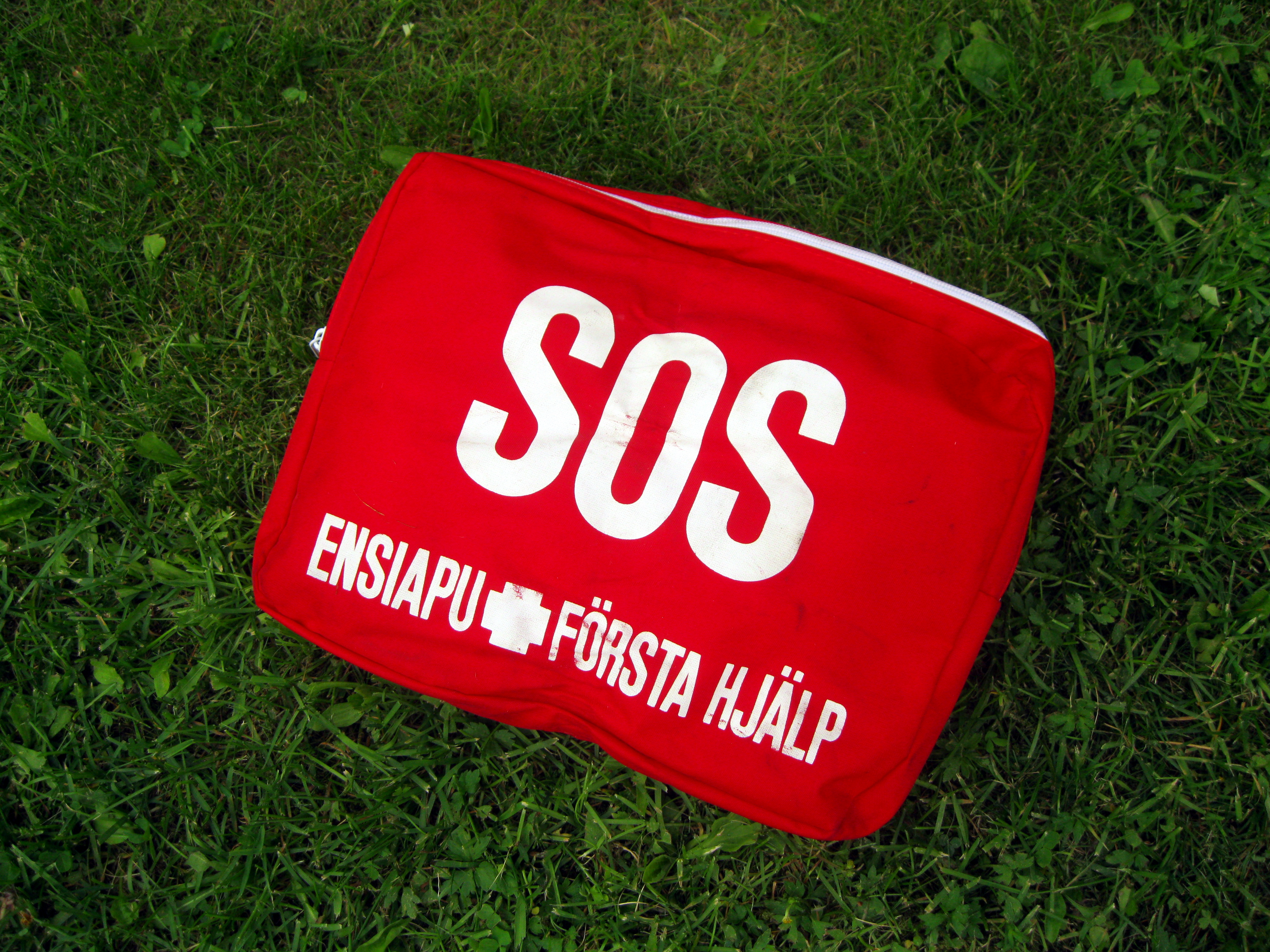 First-aid kit.